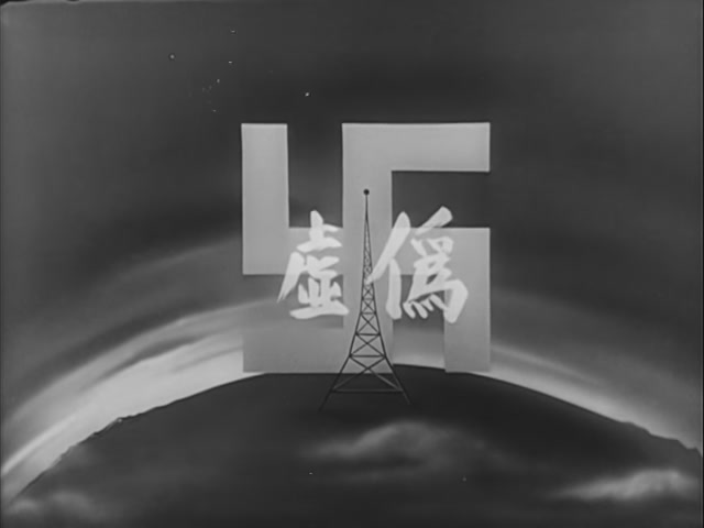 The Big Lie, 1951 anti-communist propaganda movie by the U.S. Army